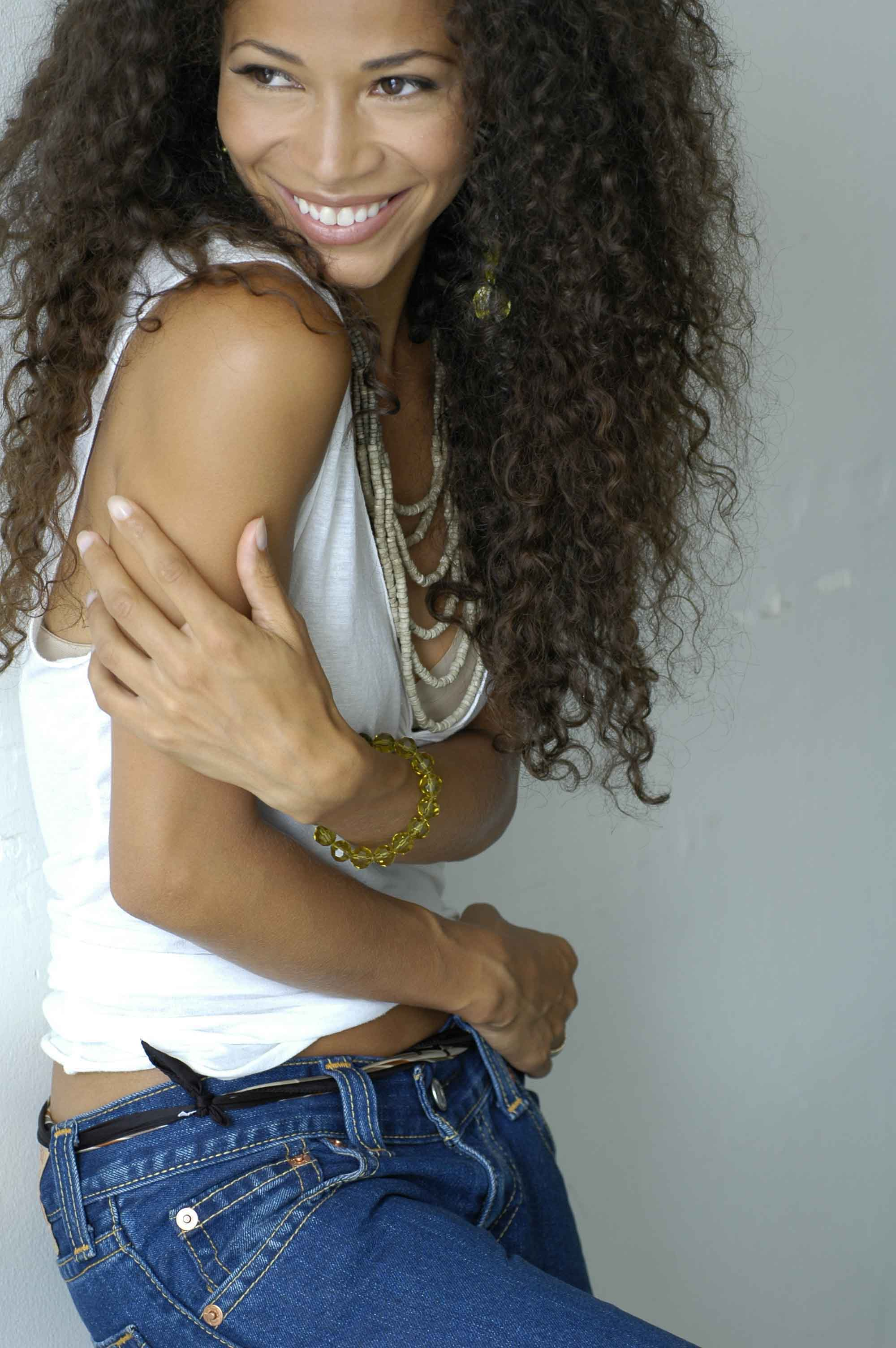 Created by Bobbi Miller-Moro, Picture of Sherri Saum, actress in the United States